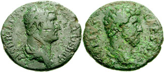 HADRIAN, with AELIUS, Caesar. 117-138 AD. Æ Dupondius or As (11.06 gm). Struck 136-138 AD. Bare-headed and draped bust of Hadrian right Bare head of Aelius right. RIC II 987; BMCRE 1847; Cohen 2 var. (Hadrian is laureate).